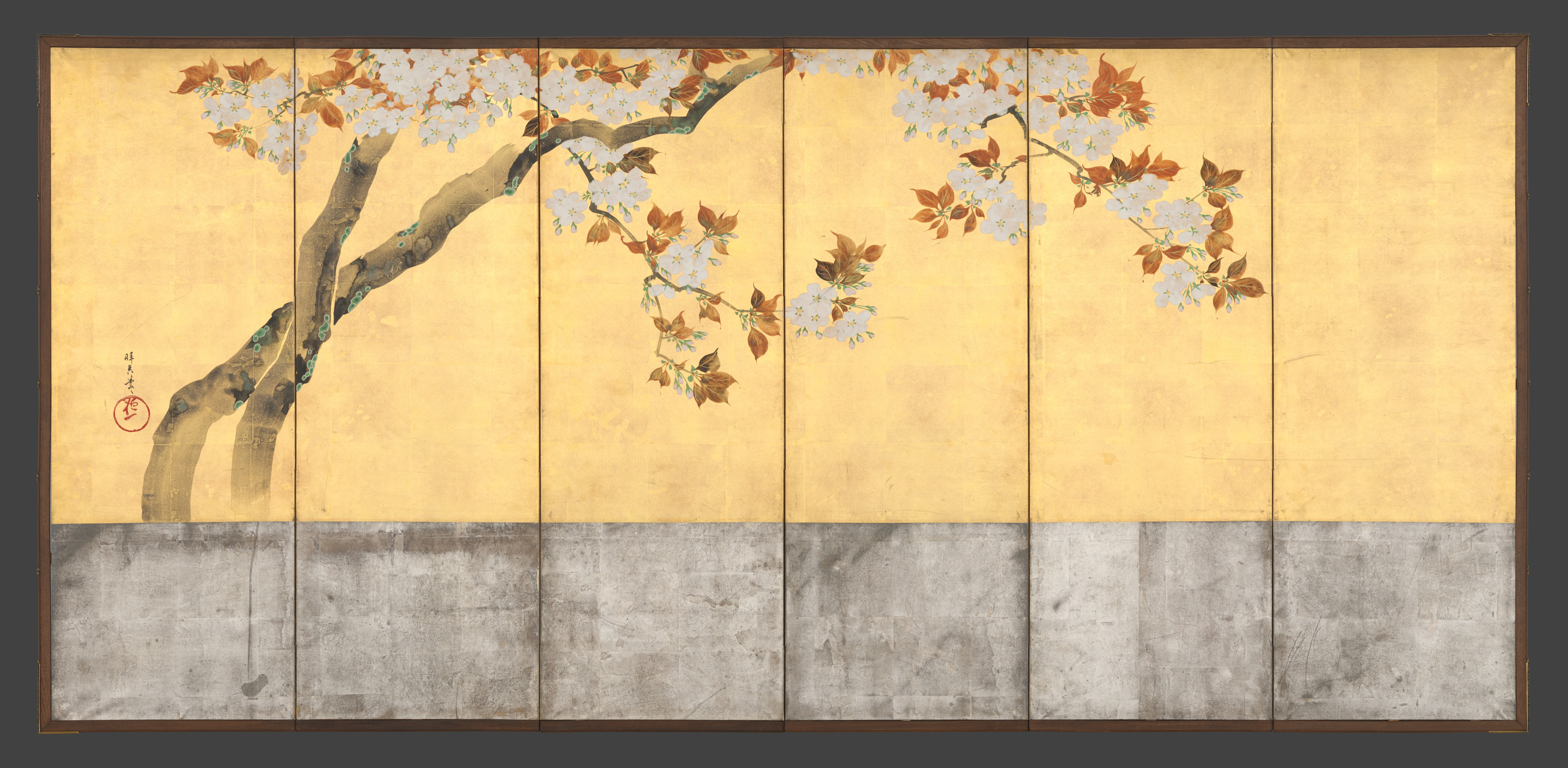 Japan; Screens; Screens